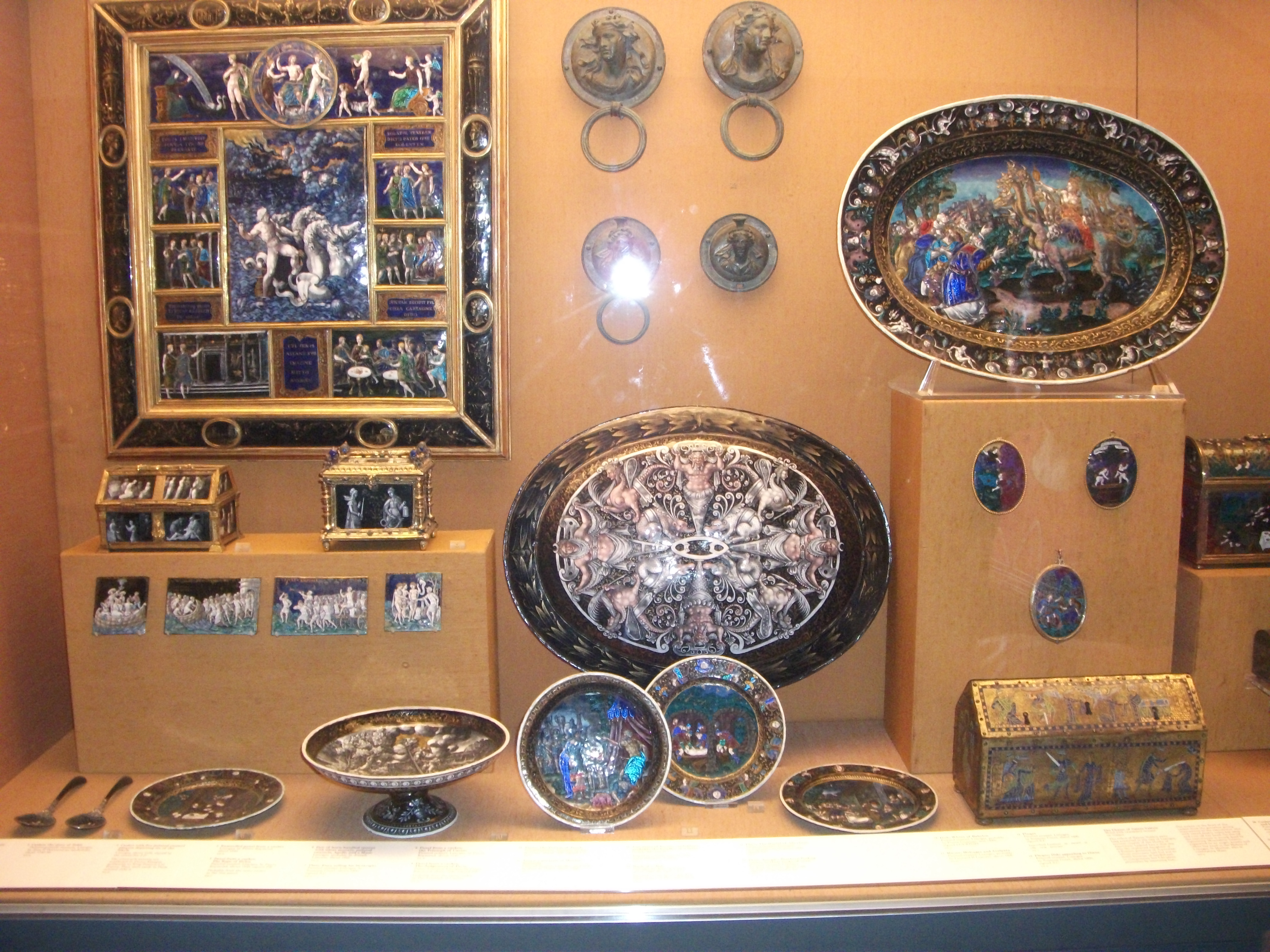 Renaissance enamels